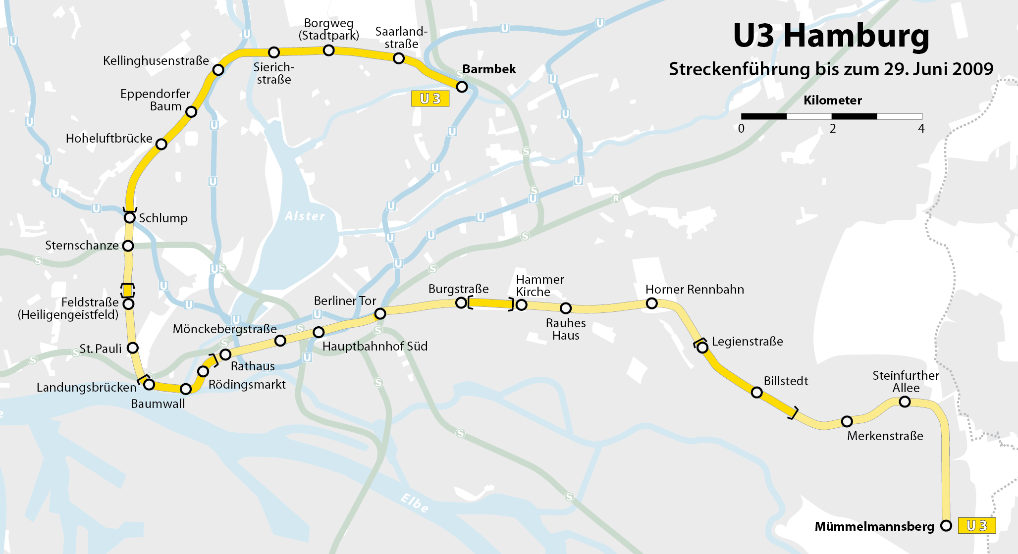 Map of Hochbahn Hamburg route U3 until 29.06.2009